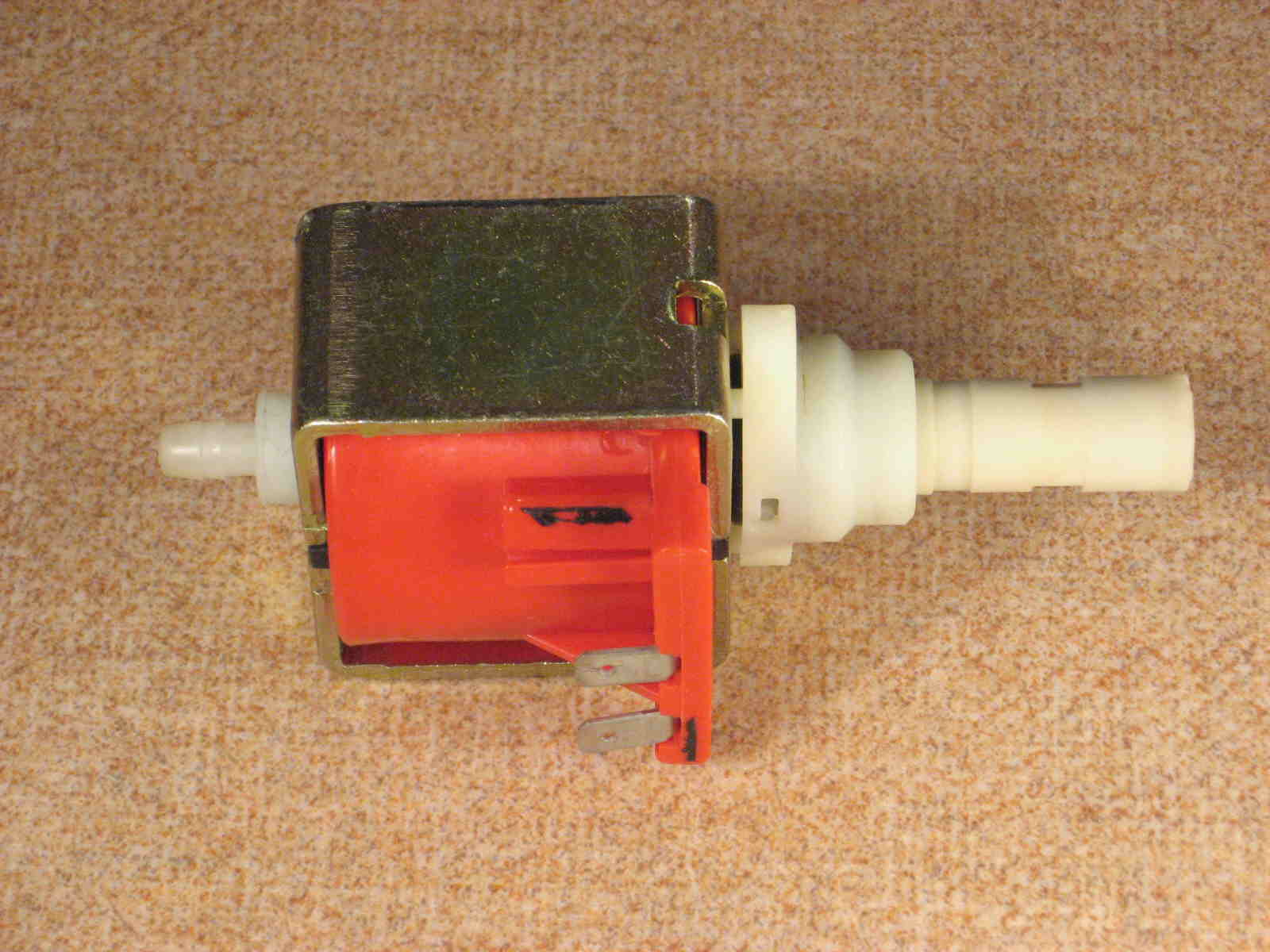 Ulka vibration pump